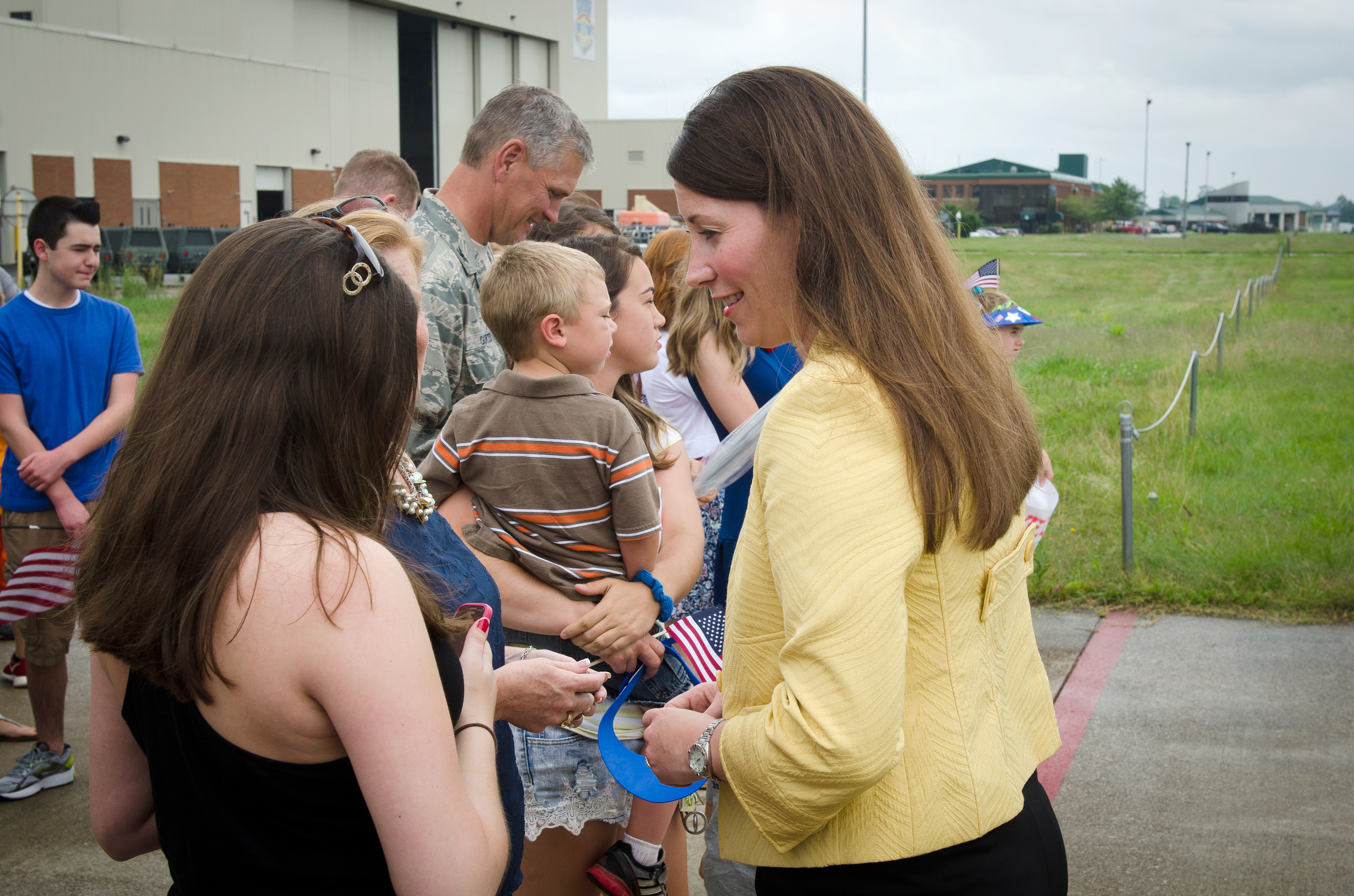 Alison Lundergan Grimes, Kentucky's secretary of state, talks to family members of Airmen from the 123rd Airlift Wing Airmen during a homecoming ceremony at the Kentucky Air National Guard Base in Louisville, Ky., July 8, 2015. Thirty Kentucky Air Guardsmen returned from a deployment to the Persian Gulf Region, where they’ve been supporting Operation Freedom’s Sentinel since February. (U.S. Air National Guard photo by Master Sgt. Phil Speck)